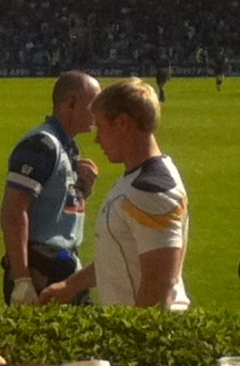 Cropped version of File:Fionn Carr 2012 Pro12 Final.JPG to focus on the player.